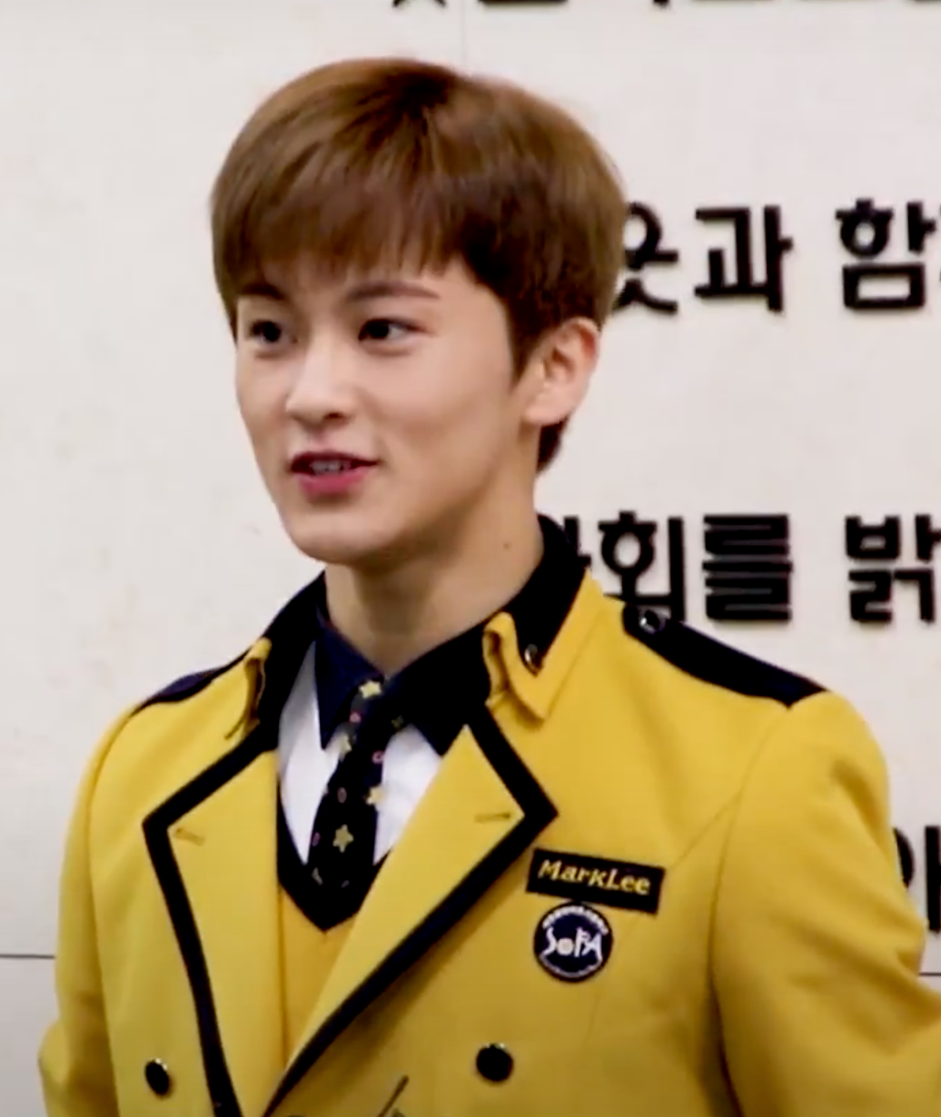 Mark Lee SOPA graduation ceremony